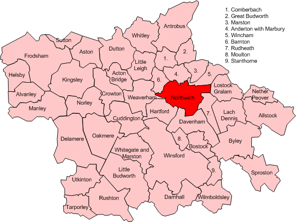 Northwich town council within Vale Royal district